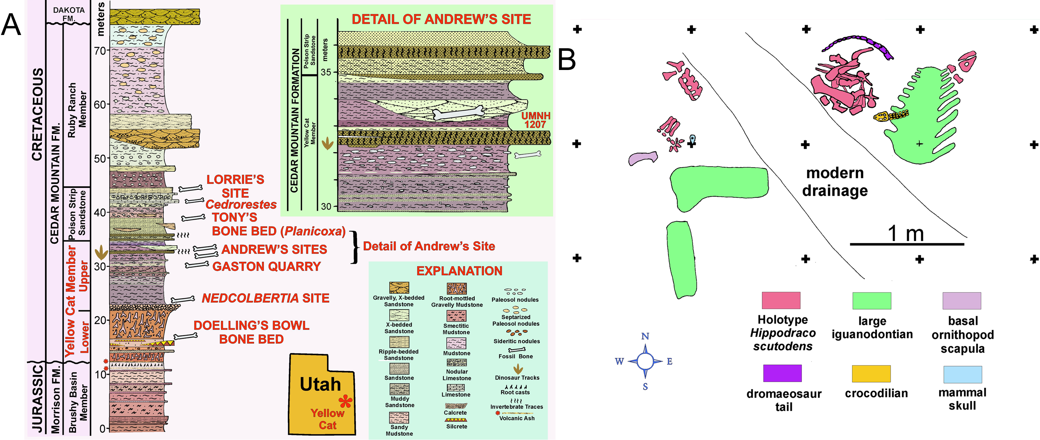 Stratigraphy and taphonomy of the type locality of Hippodraco scutodens. (A) Stratigraphy of Andrew's Site, including the type locality of Hippodraco scutodens (UMNH VP Locality 1207). (B) Quarry map of UMNH VP Locality 1207.